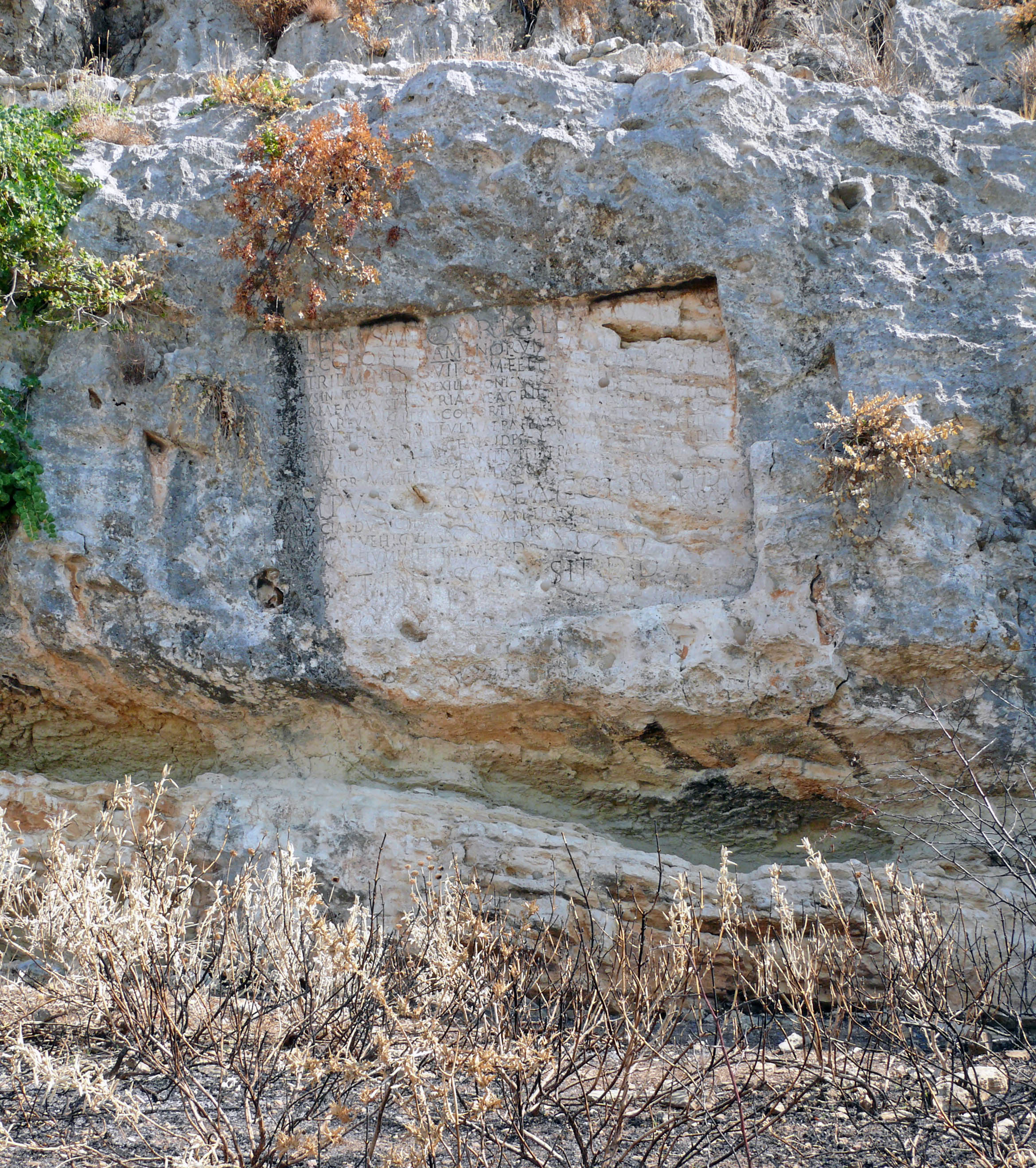 Inscription on a cliff in Byllis (Gradishtë, Albania). Corpus Inscriptionum Latinarum: 03, 00600; 03, 14203, 35.